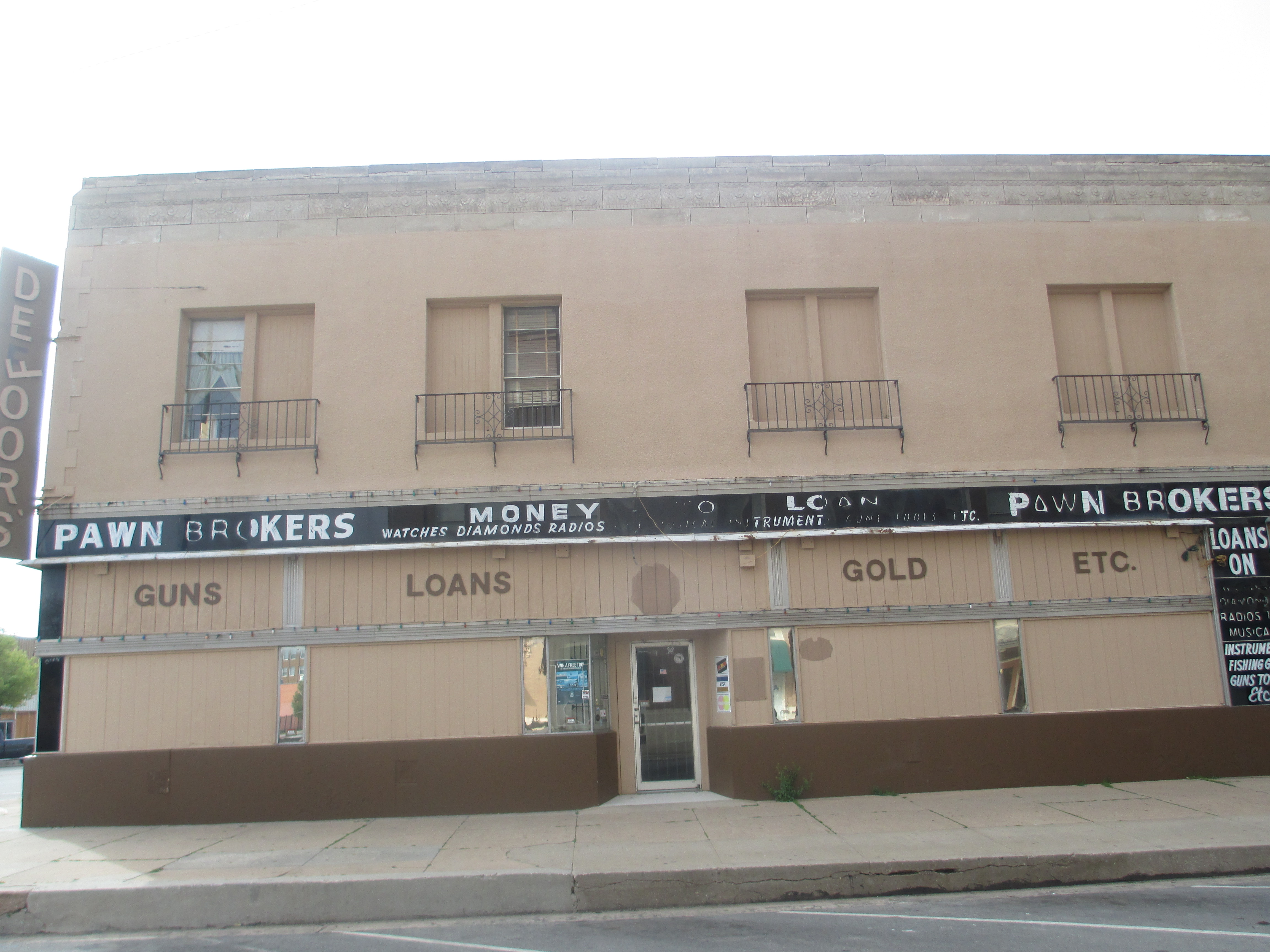 I took photo of first location of first Zales Jewelry store, in downtown Wichita Falls, TX, with Canon camera, April 7, 2013.